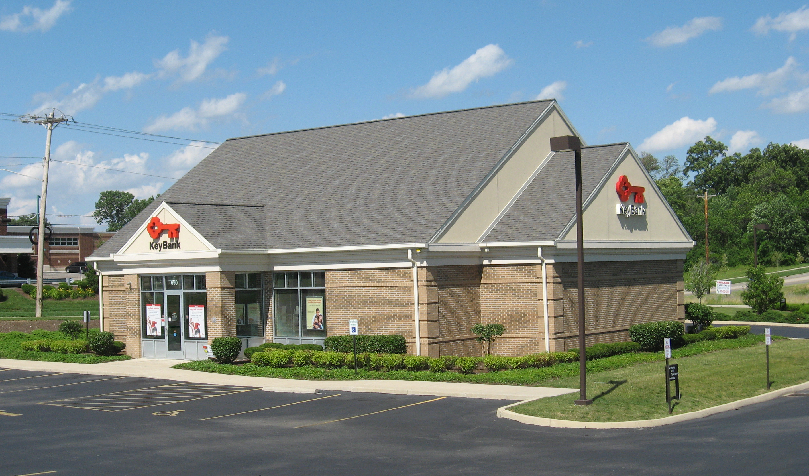 Key Bank location (Springboro, Ohio, USA)